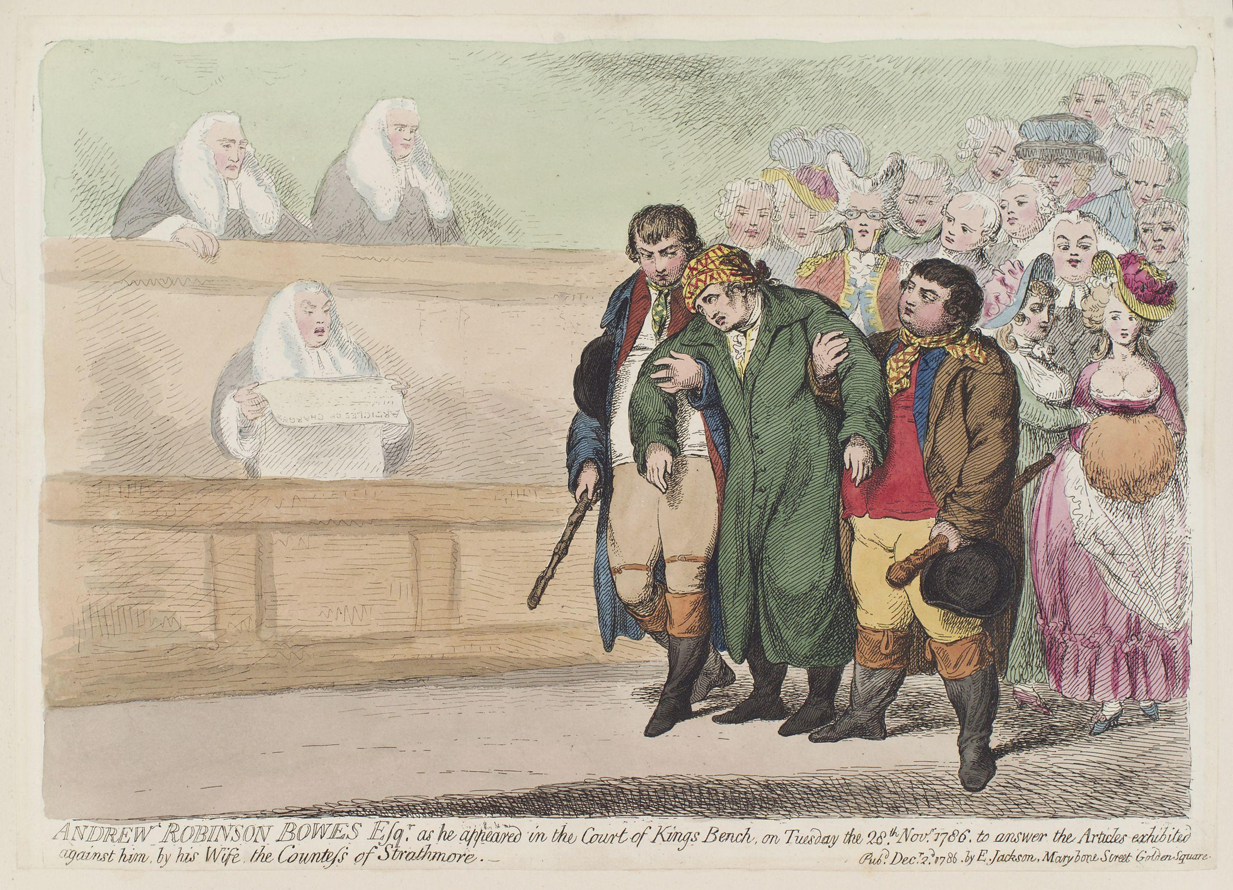 Andrew Robinson Bowes Esqr. as he appeared in the Court of Kings Bench, by James Gillray (died 1815), published 1786. All images in this batch have been confirmed as author died before 1939 according to the official death date listed by the NPG.